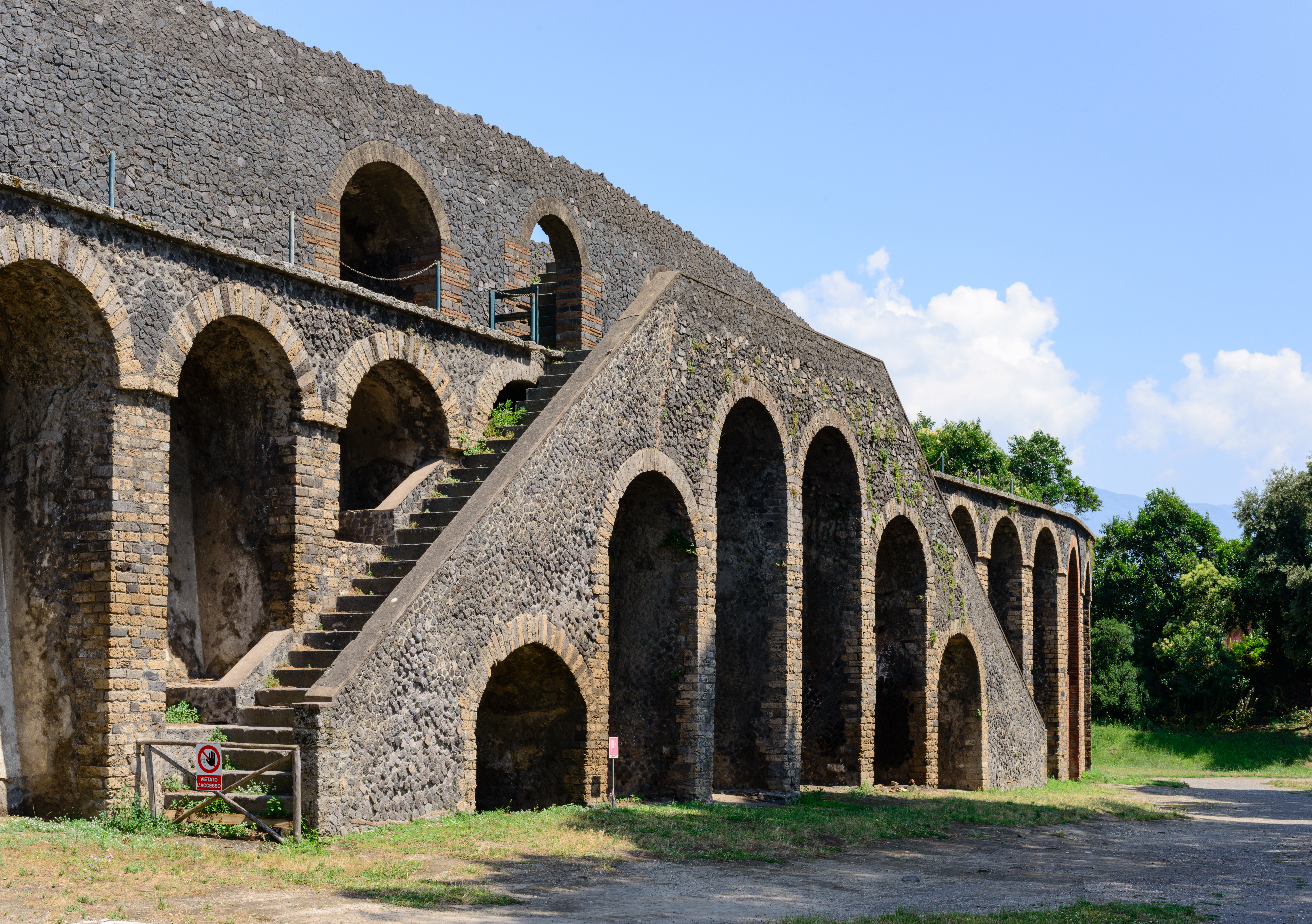 Amphitheatre, ancient Roman Pompeii, Campania, Italy.